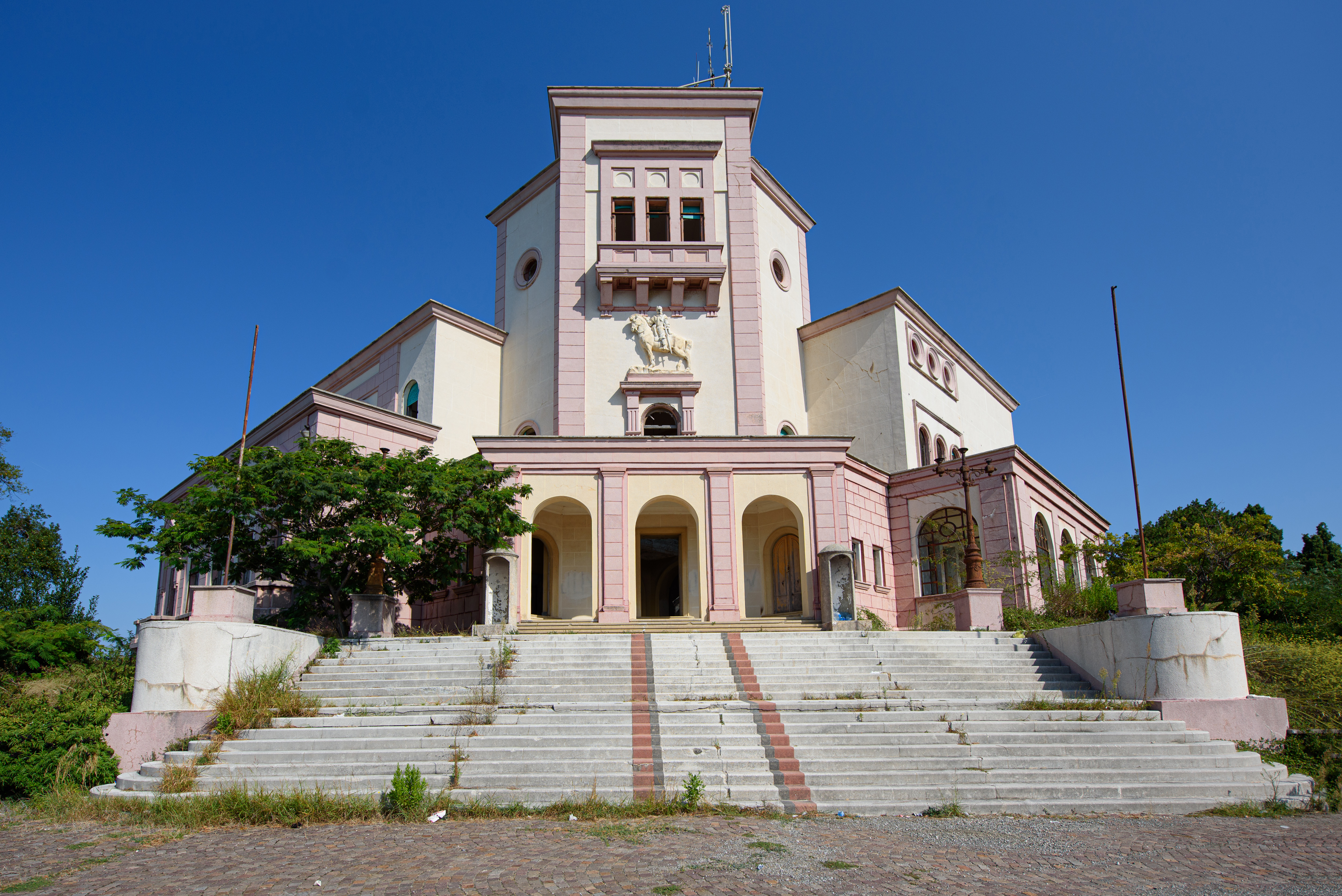 Photo realised during the expedition around Albania for the project The Albanian House